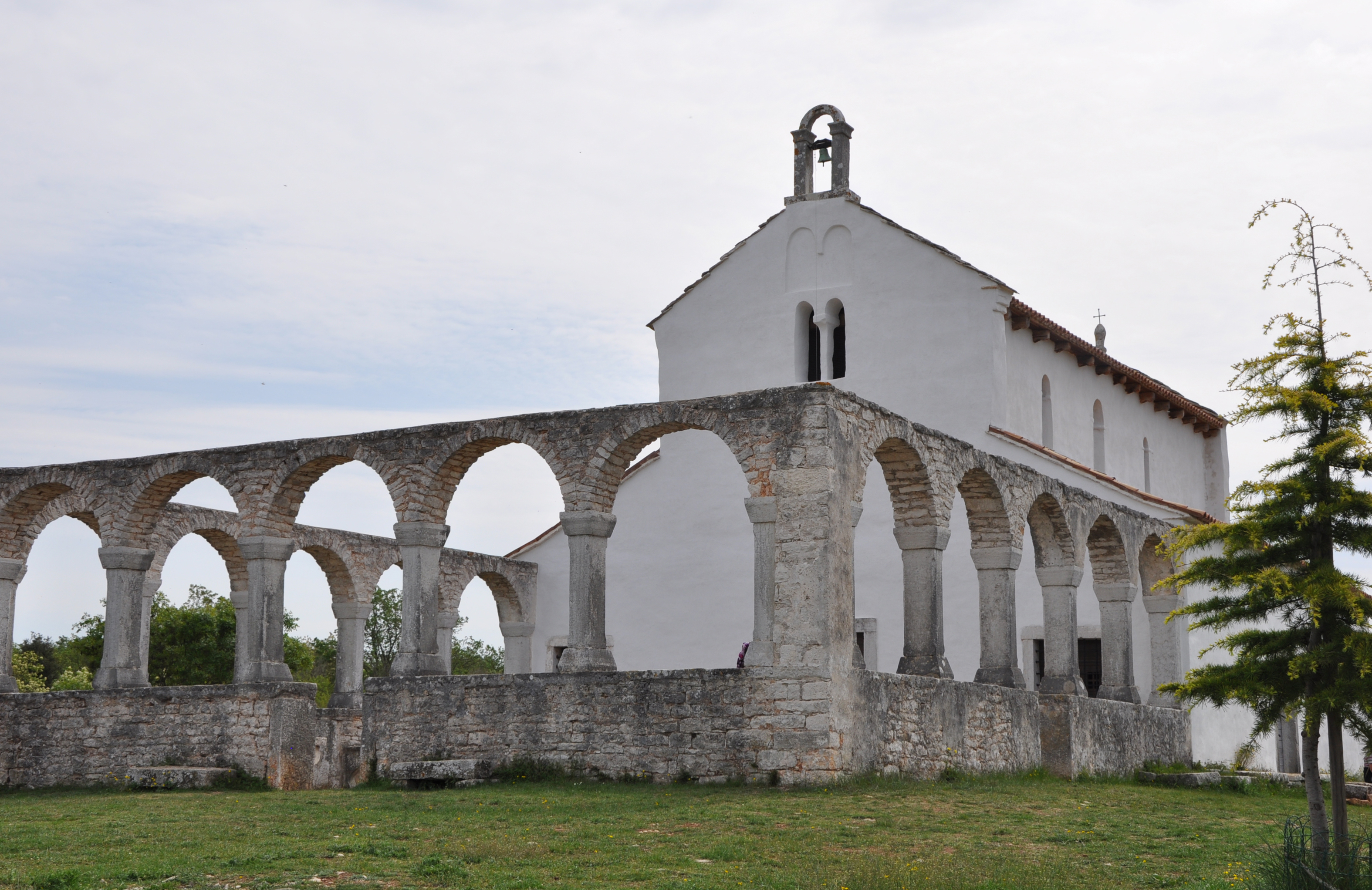 St. Fosca church near Peroj, Istria, Croatia